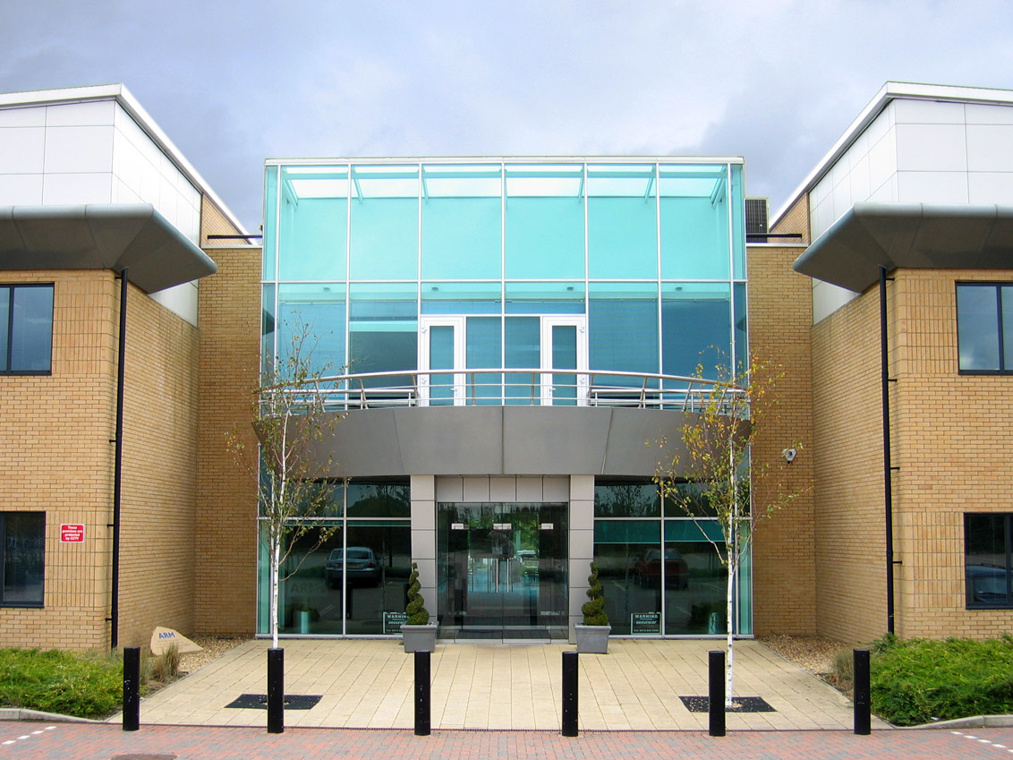 Photo of building in Cambridge, UK for computer-related company ARM Cambridge of ARM Ltd. (formerly Advanced RISC Machines Limited).